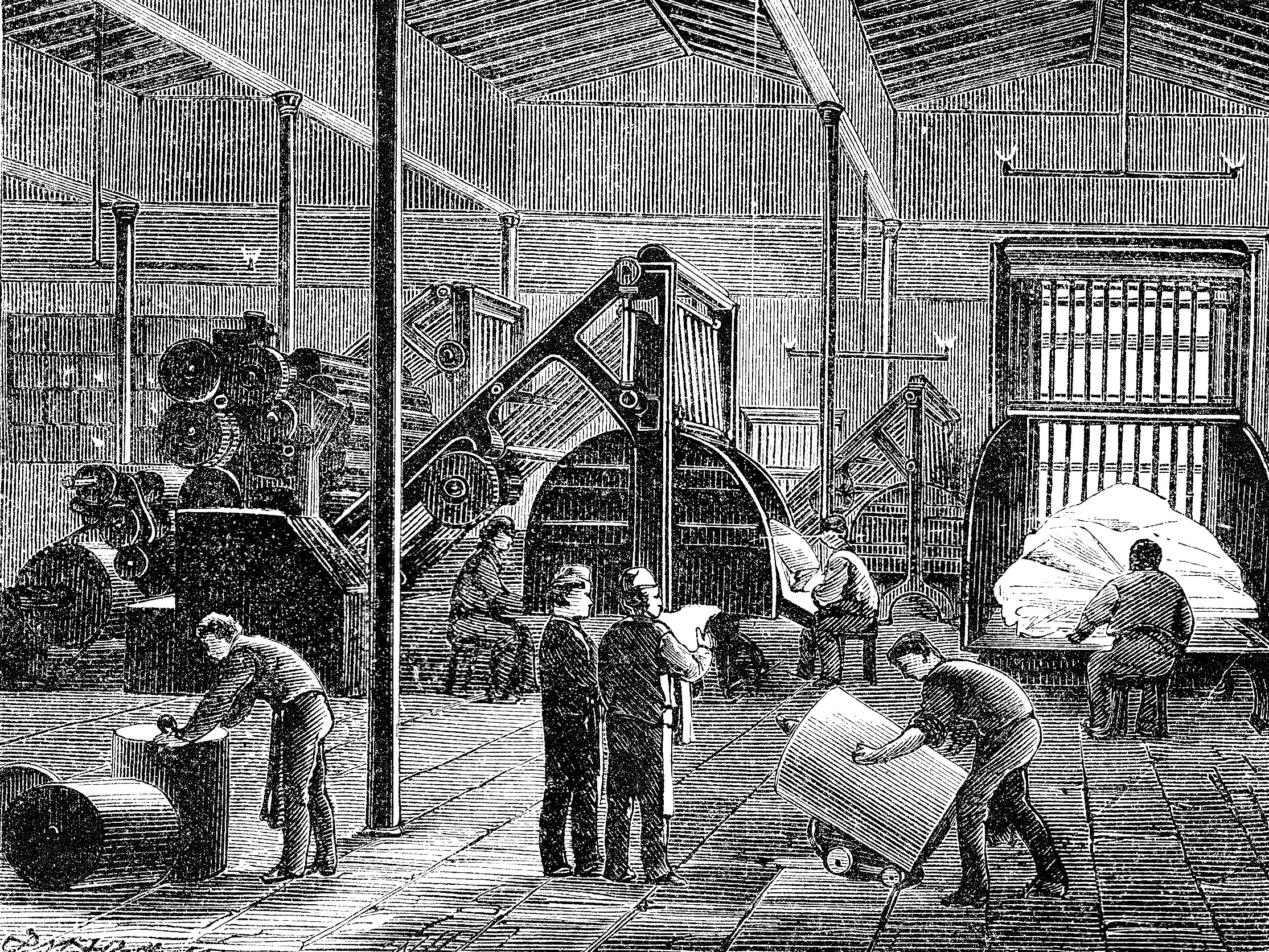 Illustration from "Illustrerad verldshistoria utgifven av E. Wallis. volume VI": Newspaper printer.